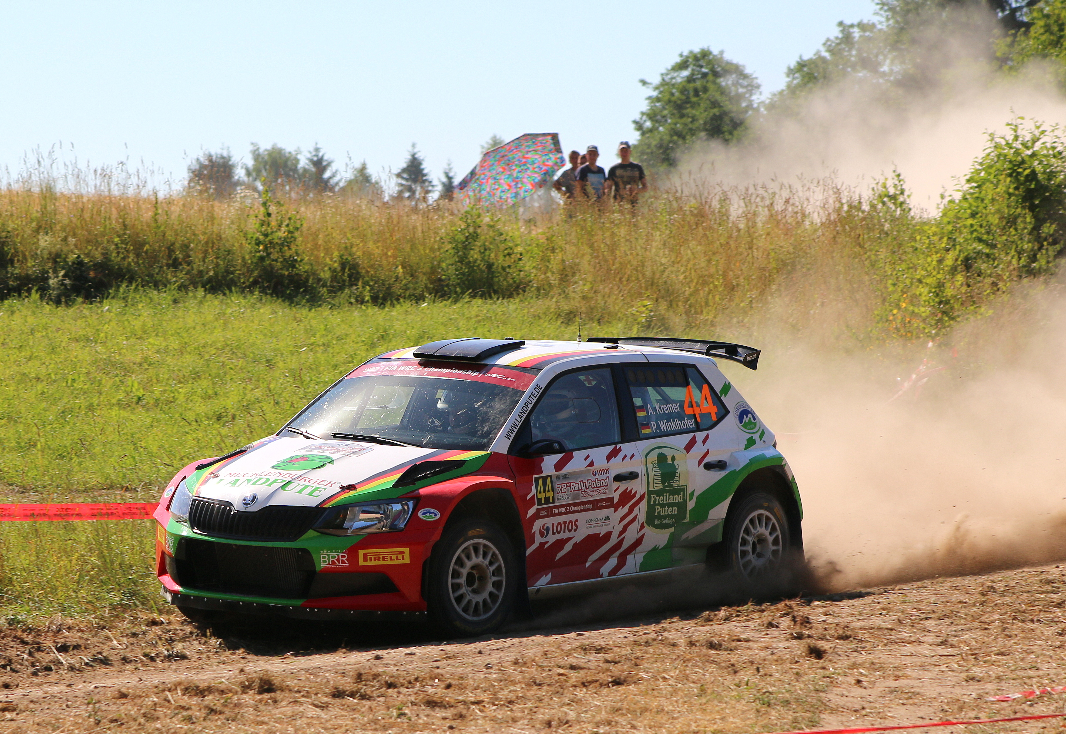 Armin Kremer, OS 10 Mazury, 72nd LOTOS Rally Poland